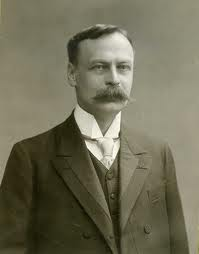 French sinologist and archeologist Édouard Chavannes (1865-1918)